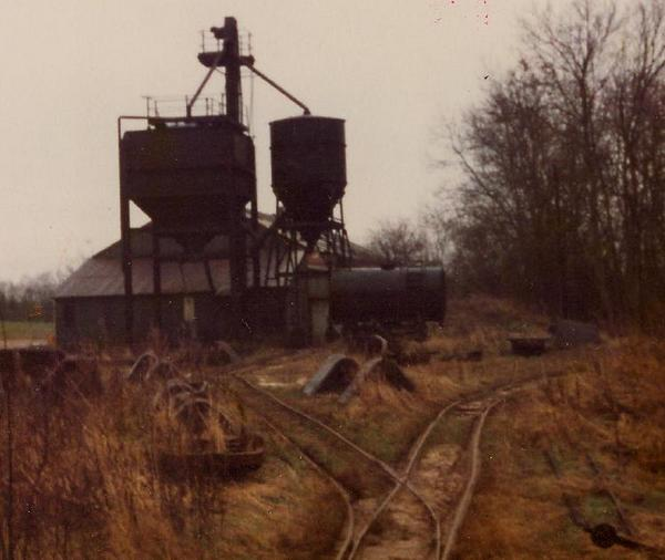 George Garsides sand quarry, Leighton Buzzard, in 1980, just before industrial rail operations ended. Taken by: Gwernol